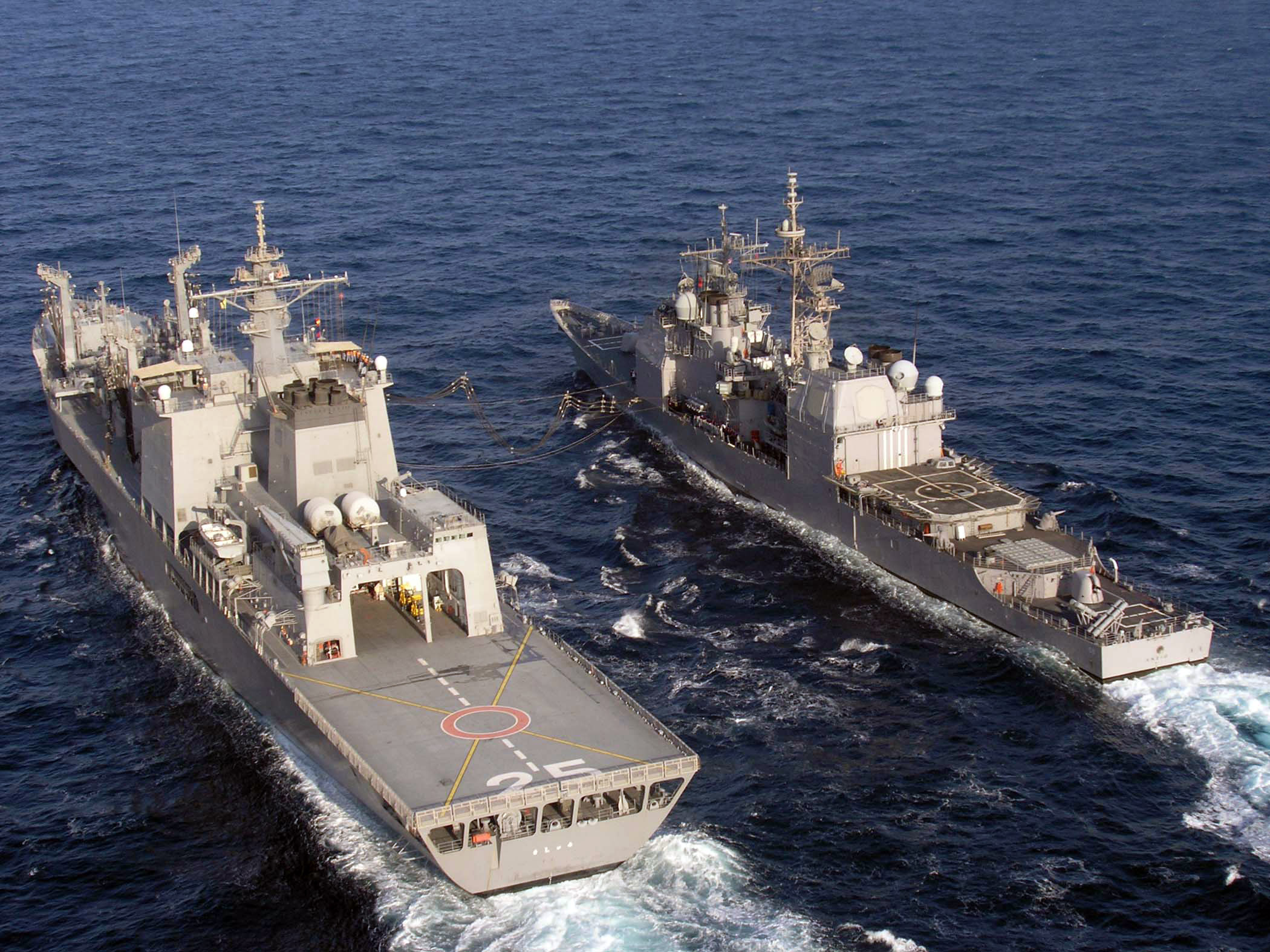 Arabian Sea (Nov. 22, 2006) - The Japanese fast combat support ship JDS Mashu (AOE 425) conducts a replenishment at sea (RAS) with the guided-missile cruiser USS Anzio (CG 68). Mashu is conducting the replenishment of fuel and ammunition for ships in order to conduct long-range fleet operations. U.S. Navy photo by Aviation Warfare Systems Operator 3rd Class Shawn Cossins (RELEASED)